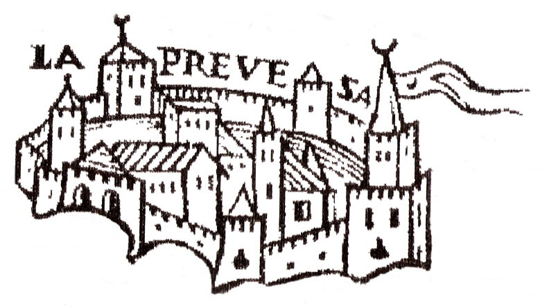 Sketch of the Castle of Bouka, Preveza, prior to the sea battle of Preveza, 1538. Wood engraving by Francesco Genesio, 1538. Actia Nicopolis Foundation, Preveza, Greece.